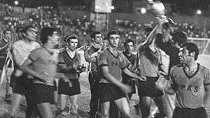 Pas FC Players with Takht Jamshid Cup